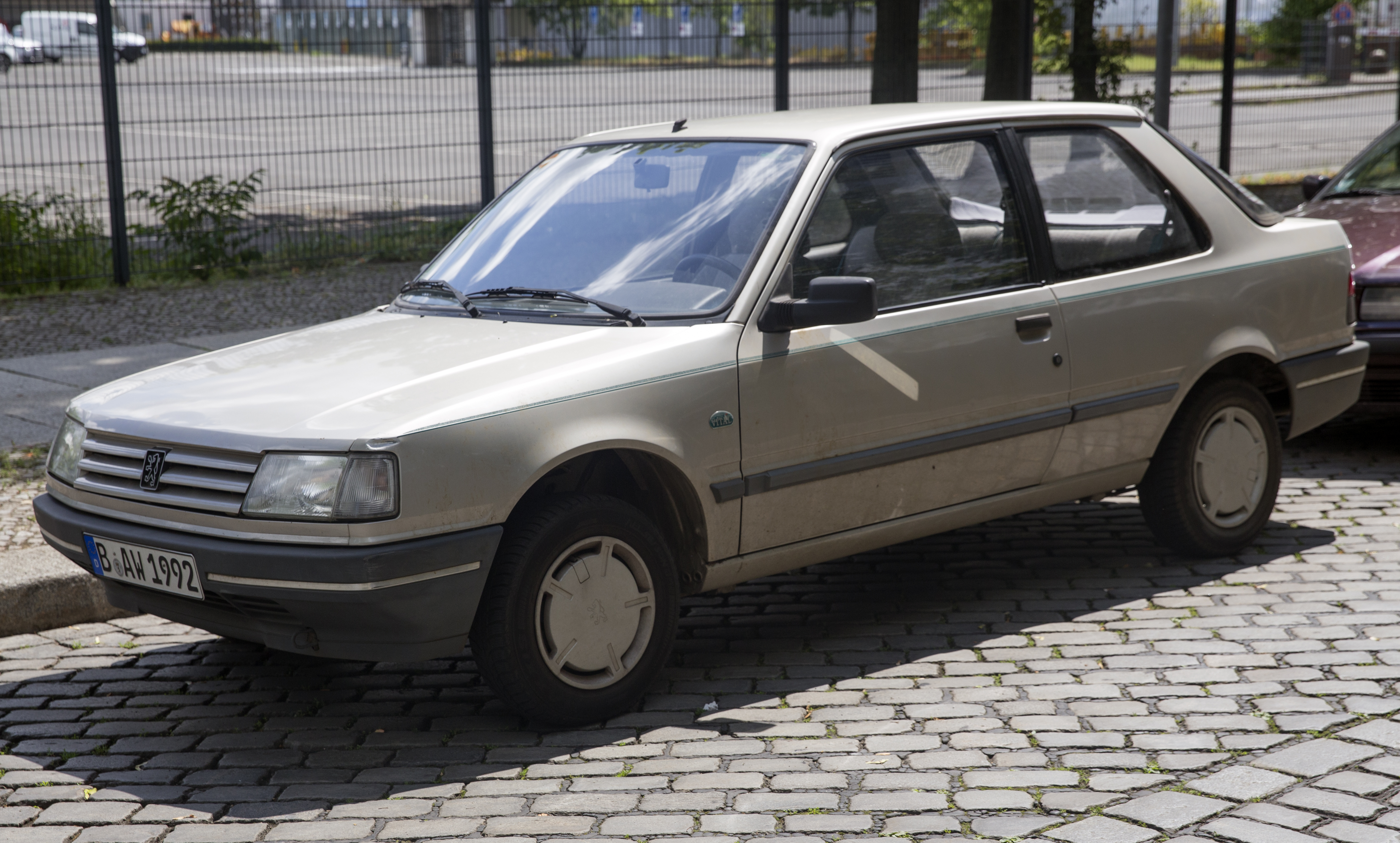 A 1992 Peugeot 309 Vital 1.4 in Berlin.